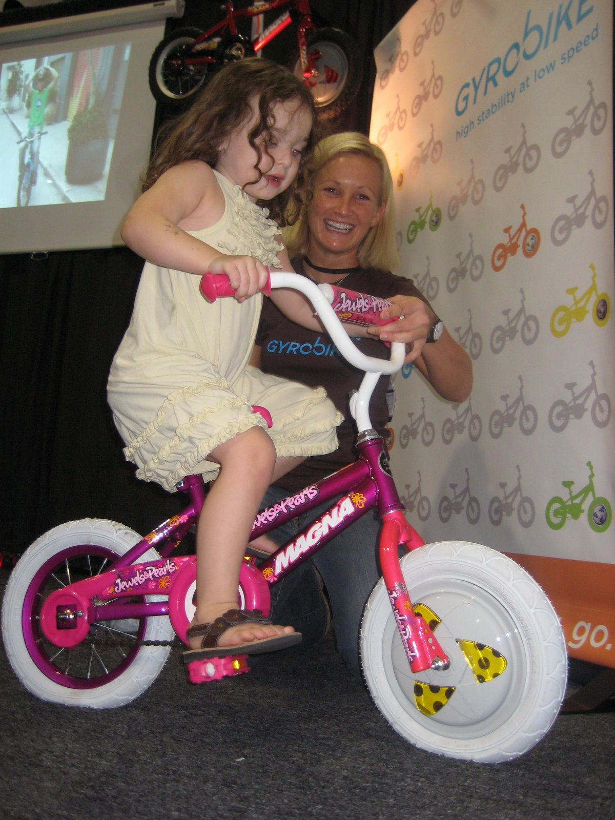 Stay stable riding a bike at slow speeds. Perfect for kids learning to ride a two wheeler or adults looking for a high-stability biking solution. See the Wikipedia:Gyrobike article and see videos of the Gyrobike at YouTube].